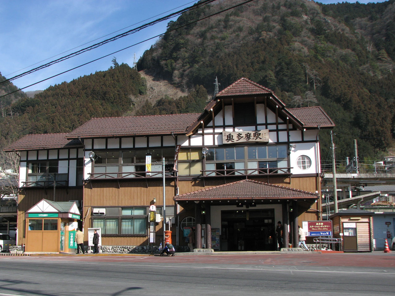 The building of JR East Okutama Station